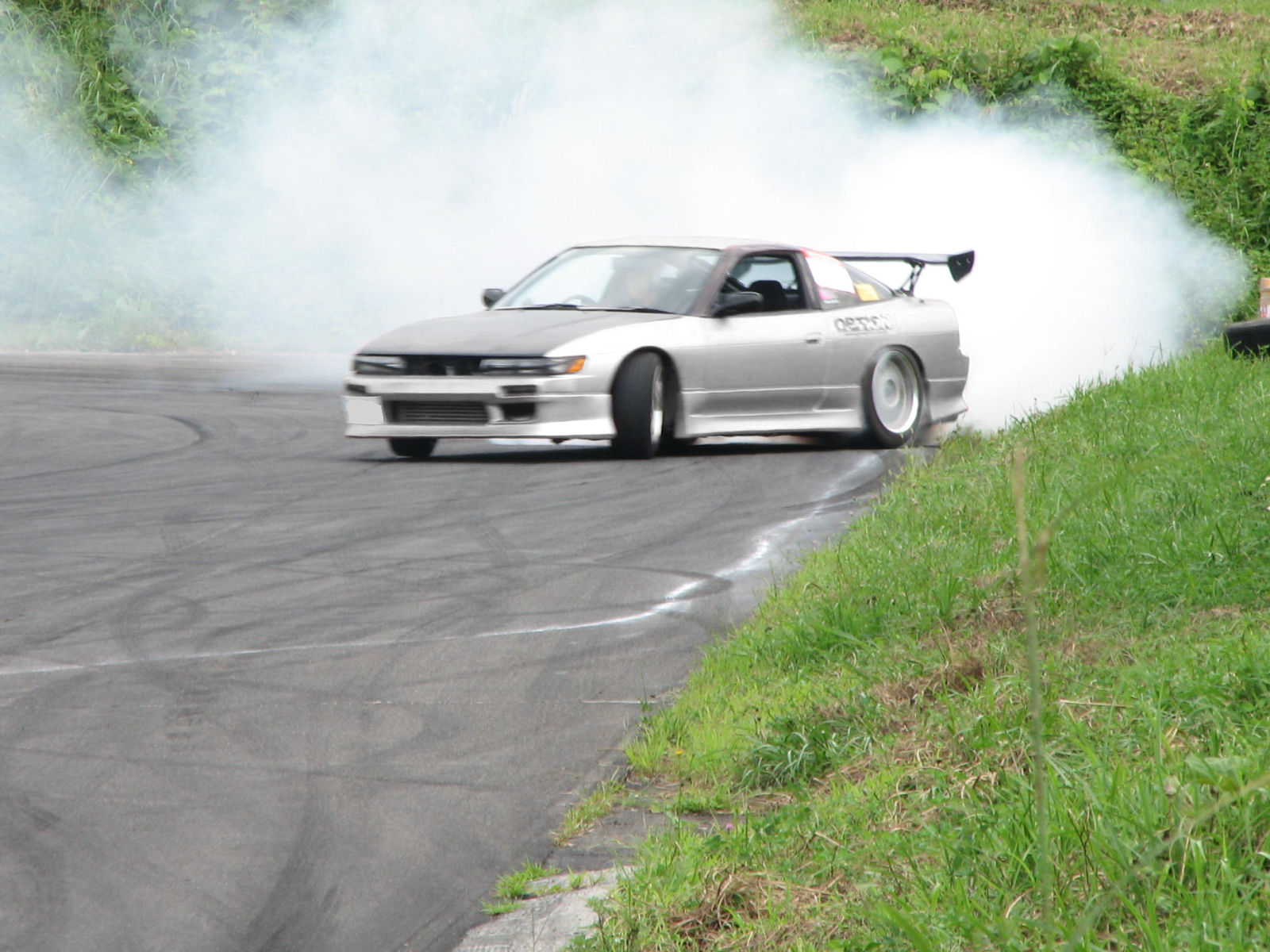 Drifting "Sileighty"(RPS13). Nissan 180SX with an S13 Nissan Silvia's headlights, front fenders, hood, and front bumper installed, hence the 'Sil' in front and the 'eighty' rear.ドリフト中のシルエイティ。S13のヘッドライト、フェンダー、フード、バンパーを180SXに移植したもの。見た目は前がシルビア、後ろが180SX。